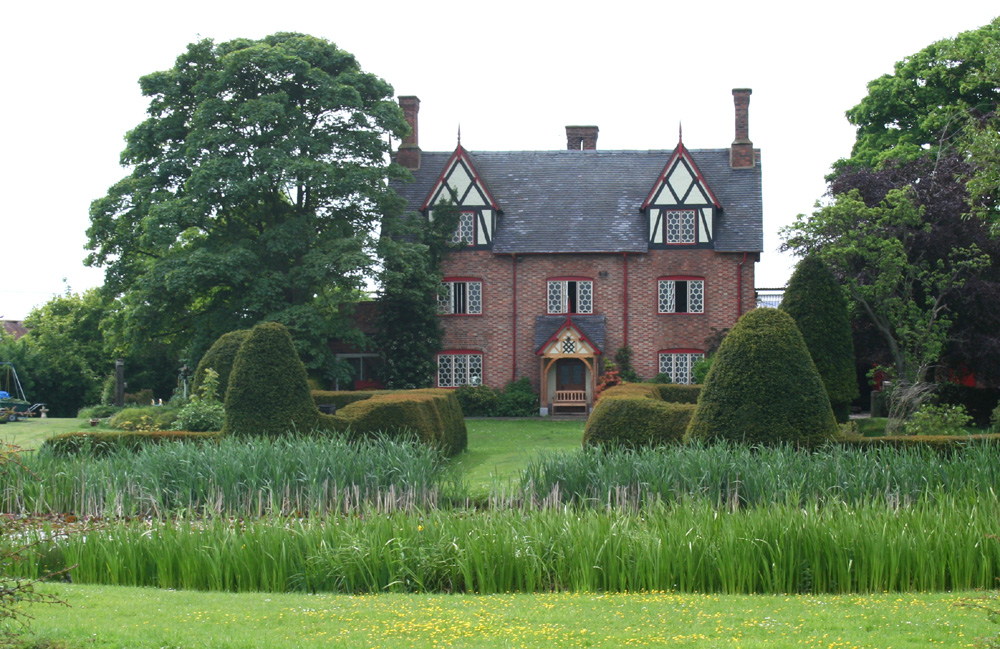 Brindley Lea Hall, Brindley, Cheshire